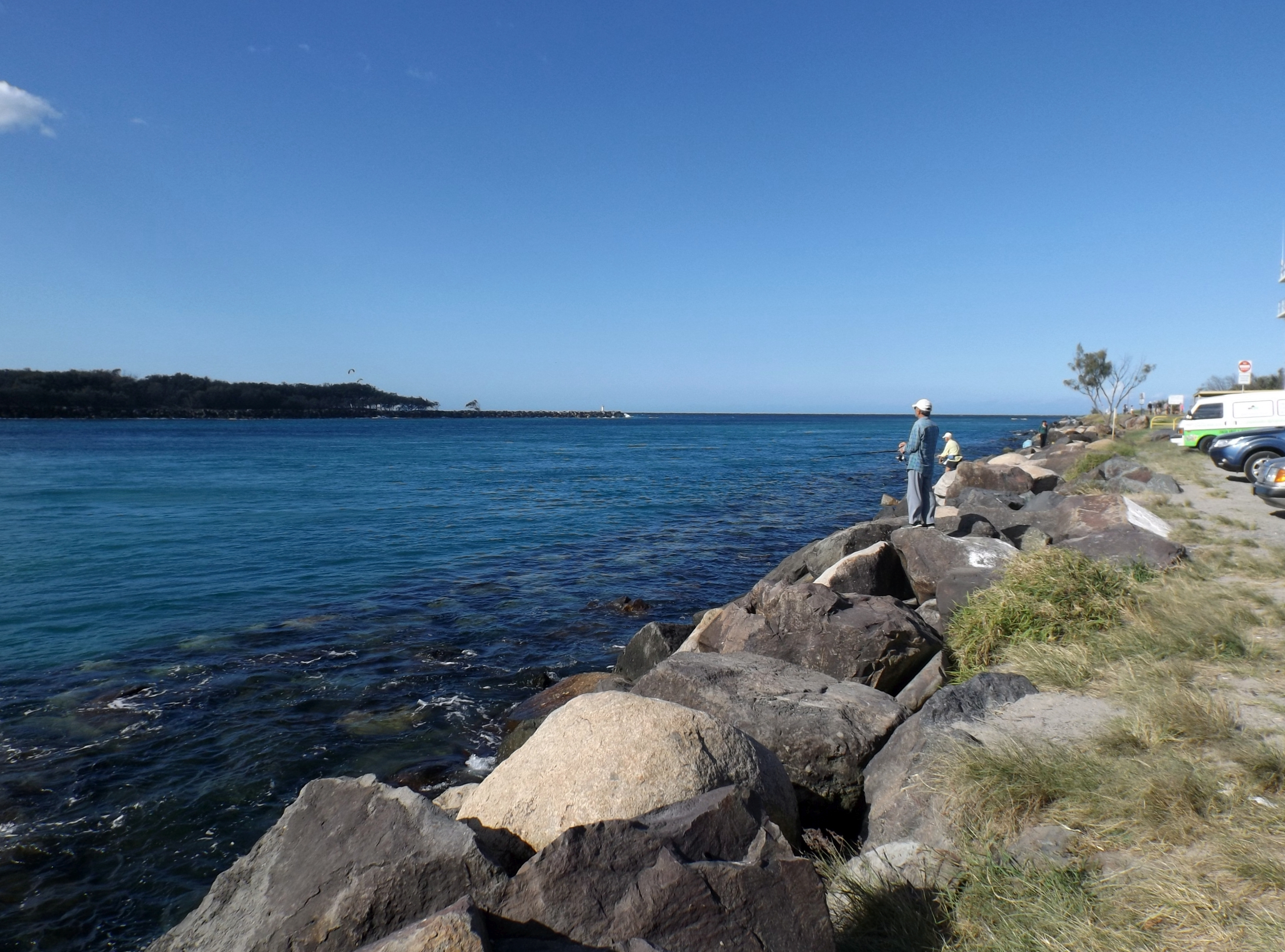 Photo of anglers along the rock walls of the Gold Coast Seaway at Main Beach, Gold Coast City, Queensland, Australia. South Stradbroke Island can be see in the background.